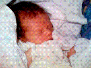 June 11th, 1997, Santa Cruz, CA: Image taken by Philippe Kahn after his daughter's birth with the first camera phone solution, protoMMS, picture shared instantly on Public Cell phone systems with 2000+ friends, family and business associates worldwide